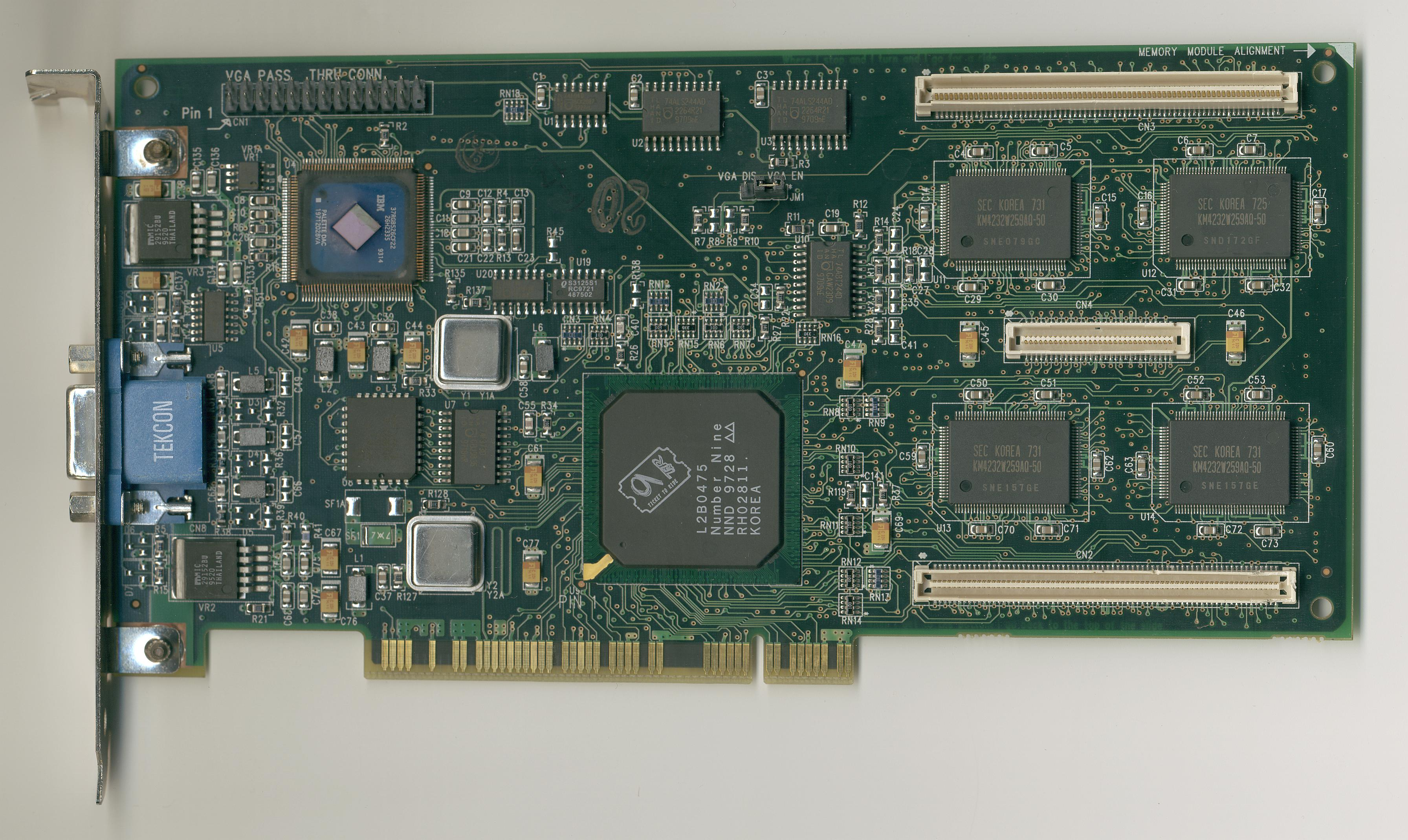 Number Nine Visual Technology Revolution3D (Ticket_to_Ride) PCI 8MB WRAM